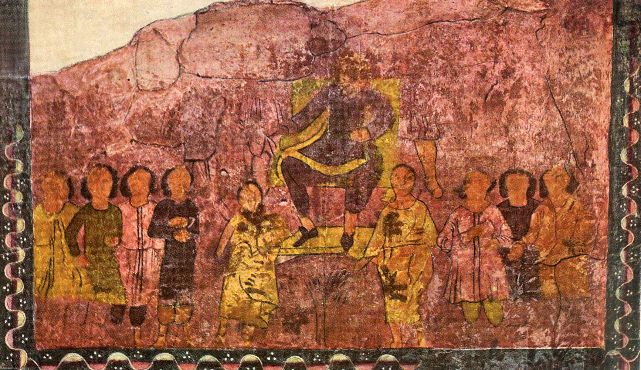 Dura Europos fresco on the West wall : David King of Israel.